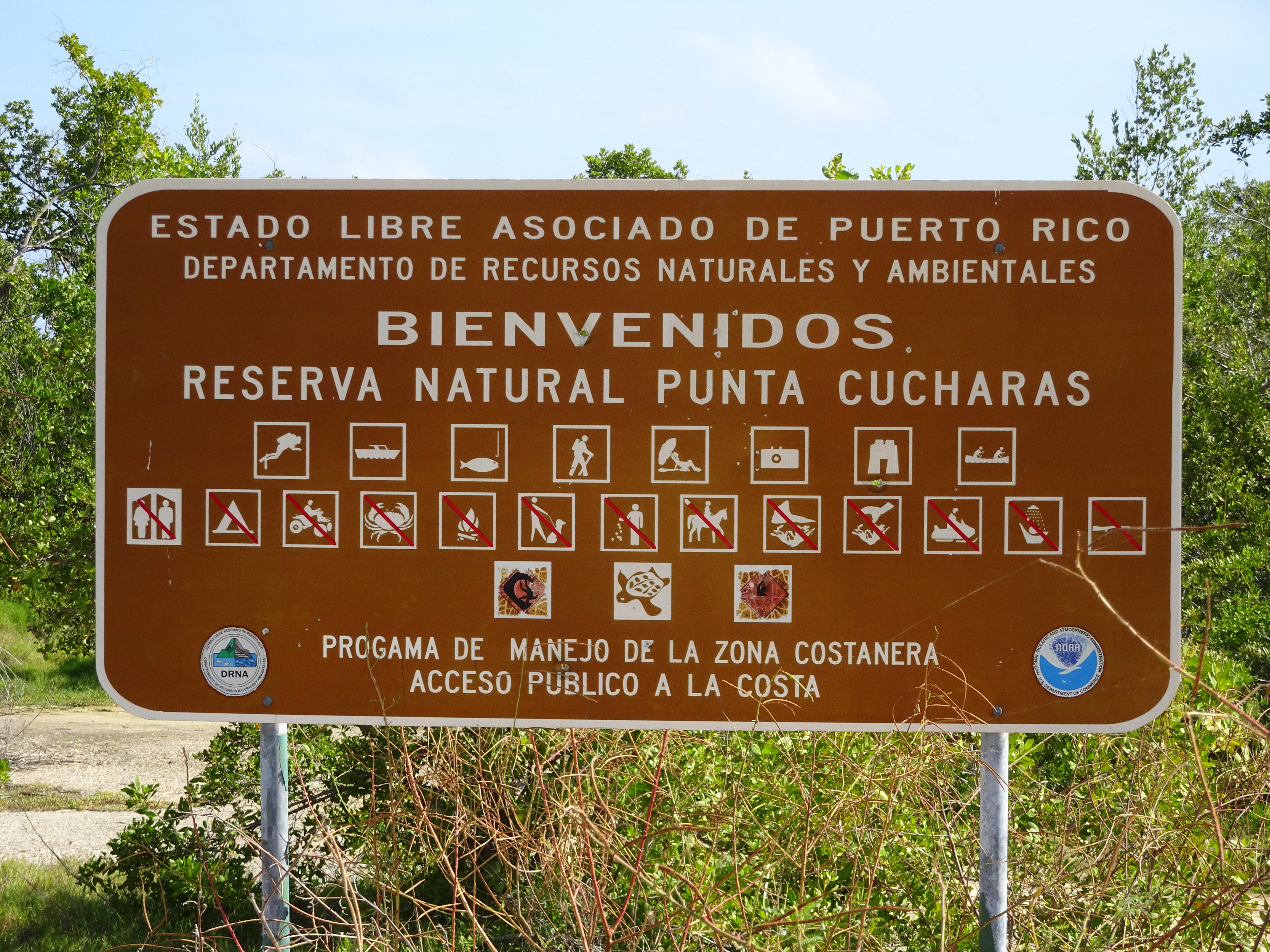 Letrero en la Reserva Natural Punta Cucharas, Bo. Canas, Ponce, Puerto Rico, mirando al sur (DSC02251)